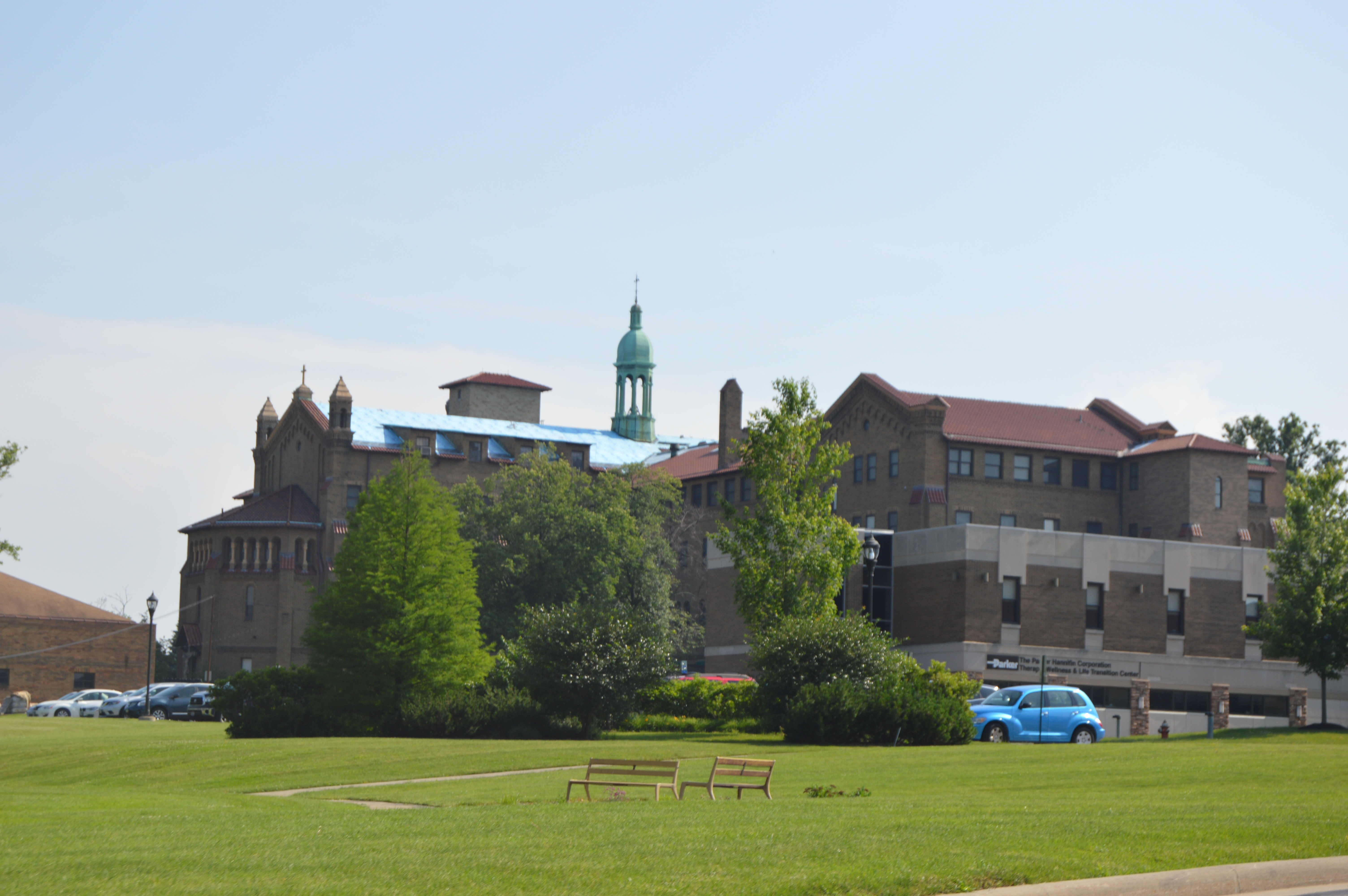 Overview from the north of part of the St. Joseph Convent and Academy Complex, located at 12215 Granger Road (State Route 17) in Garfield Heights, Ohio, United States. Built in 1924, it is listed on the National Register of Historic Places.